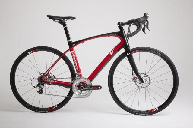 Picture depicting Volagi's main bicycle frame the liscio